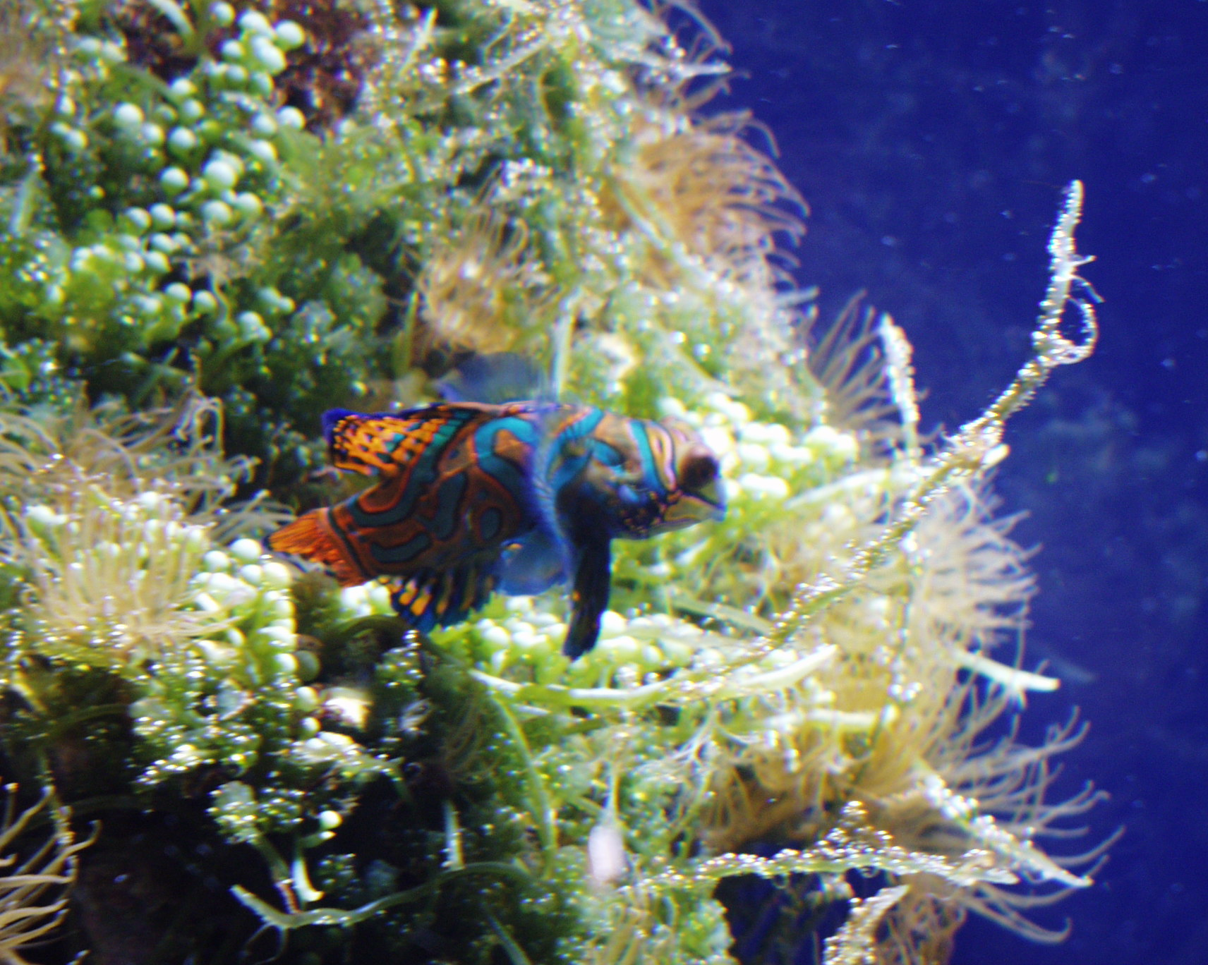 Synchiropus splendidus Mandarinfisch